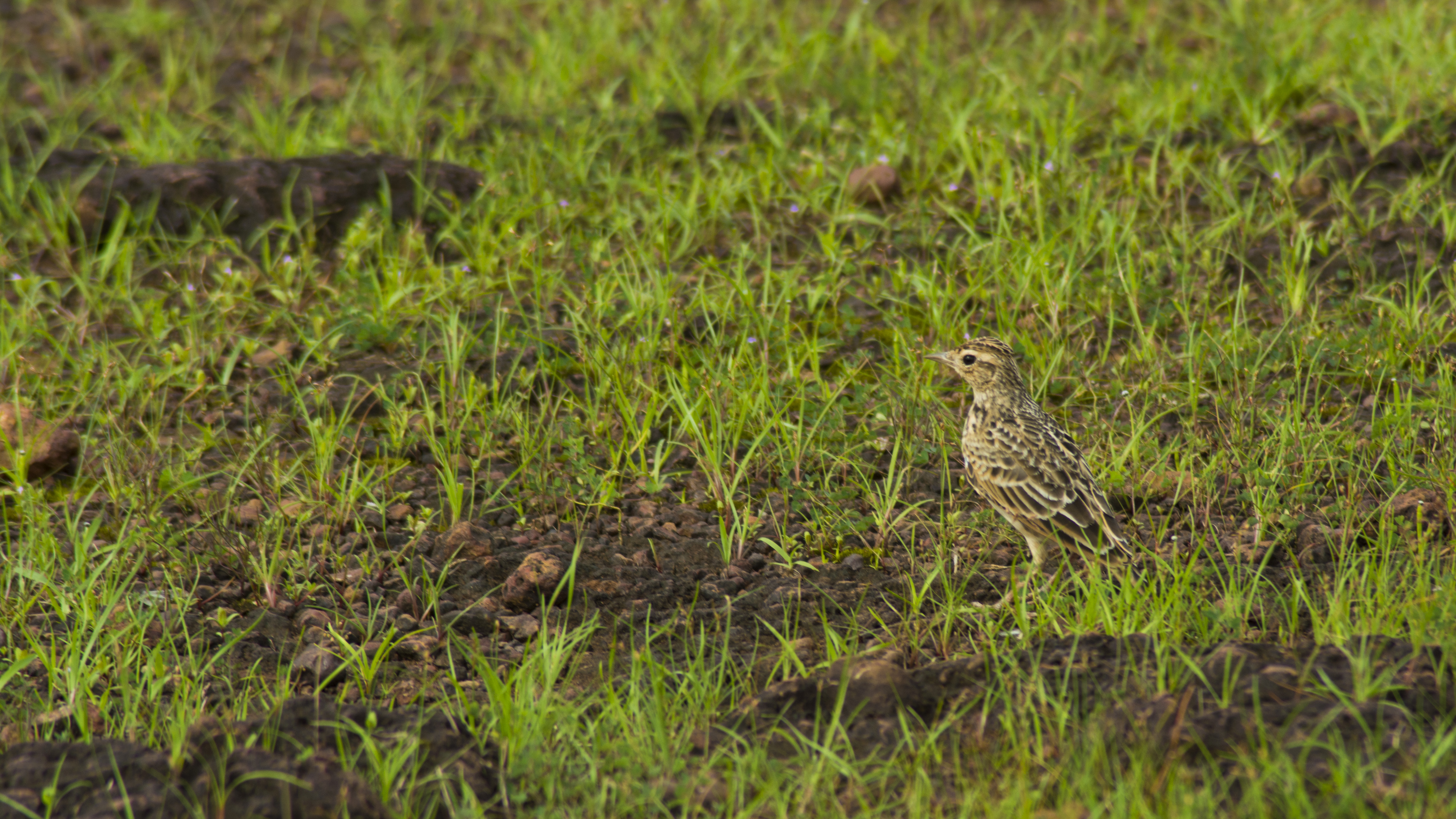 Alauda gulgula